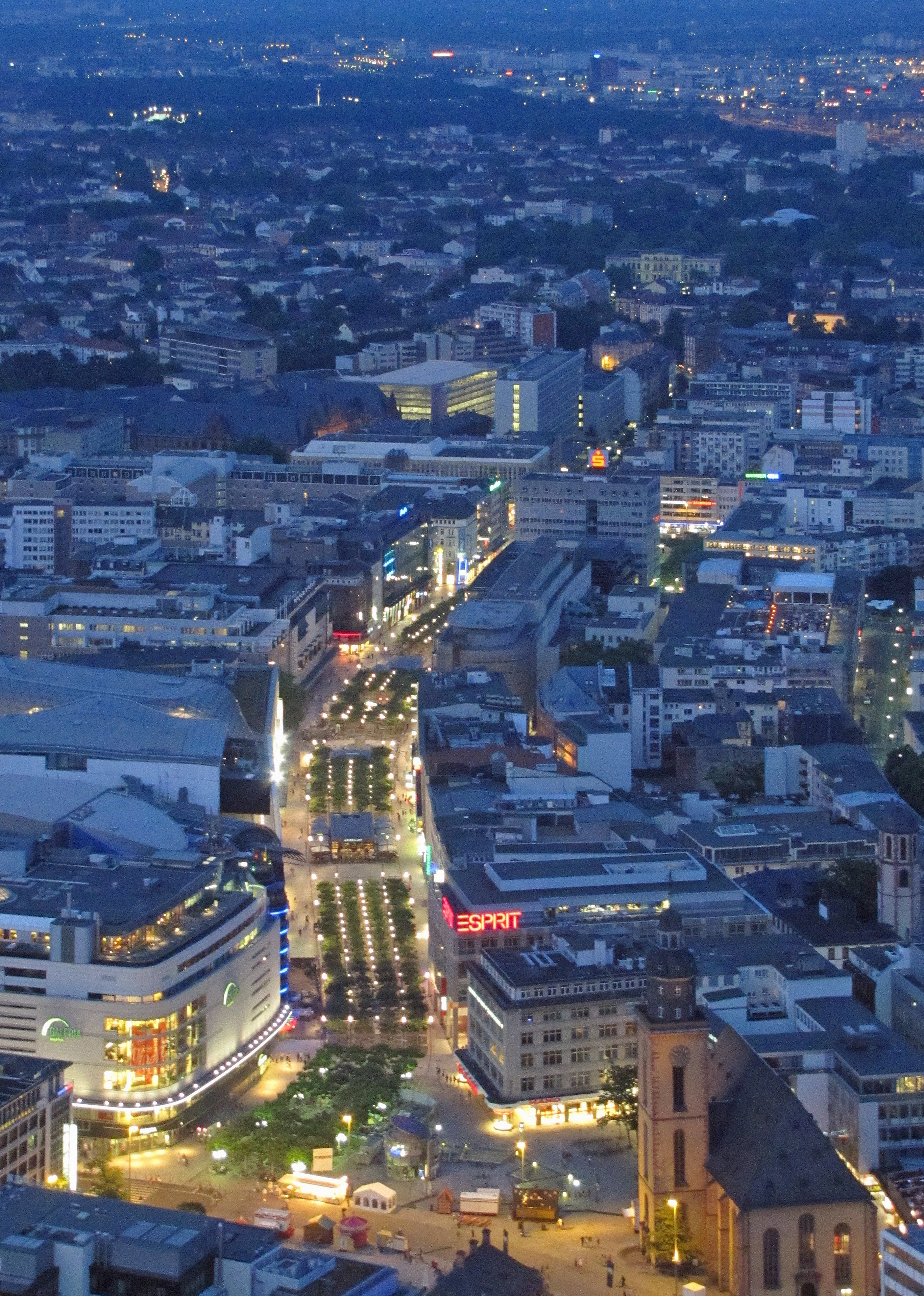 The street "Zeil" (2010), in Frankfurt am Main, Hesse, Germany